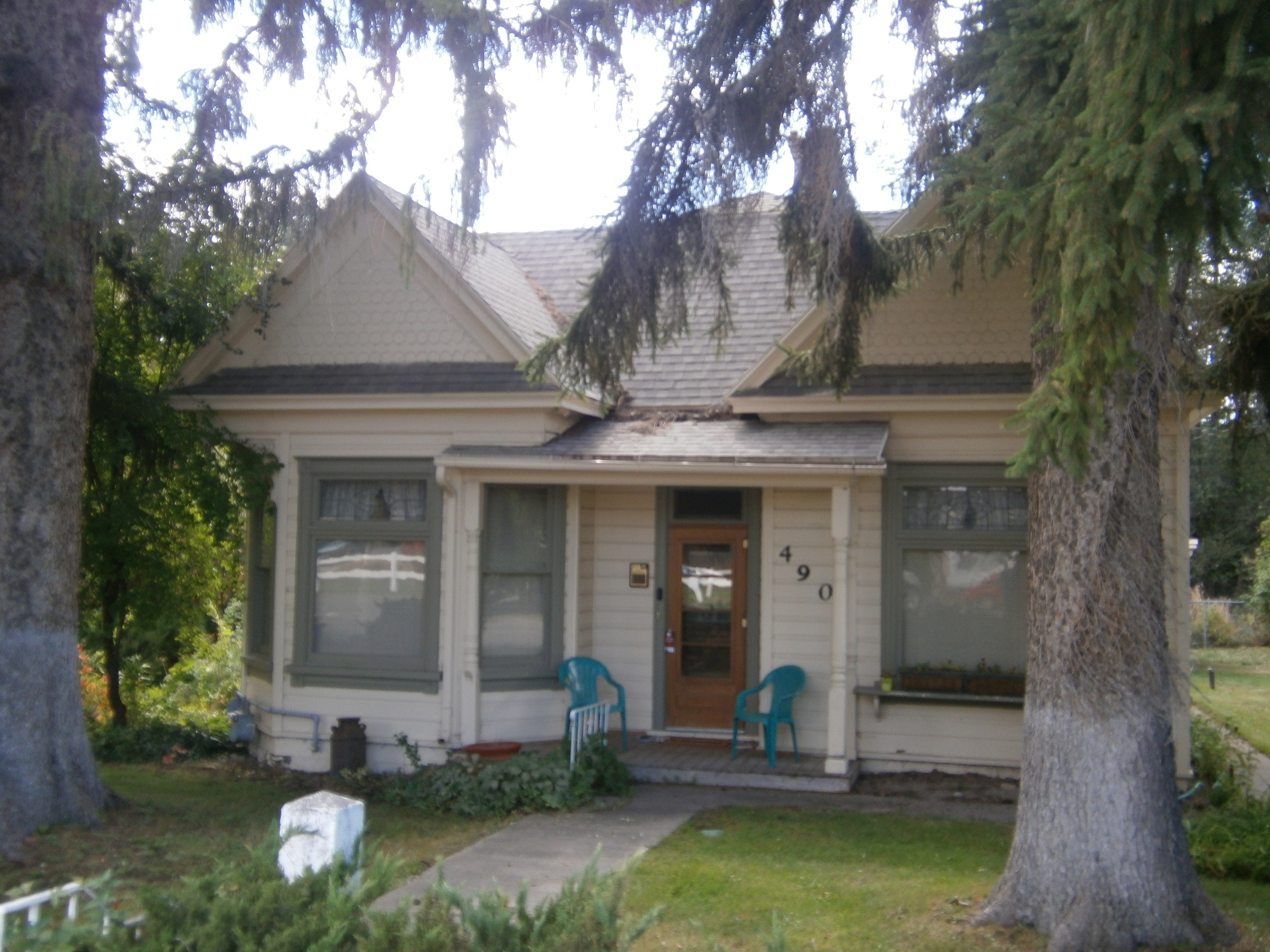 The Erick Lehi and Ingrid Larsen Olson House, a historic home in River Heights, Utah, United States.